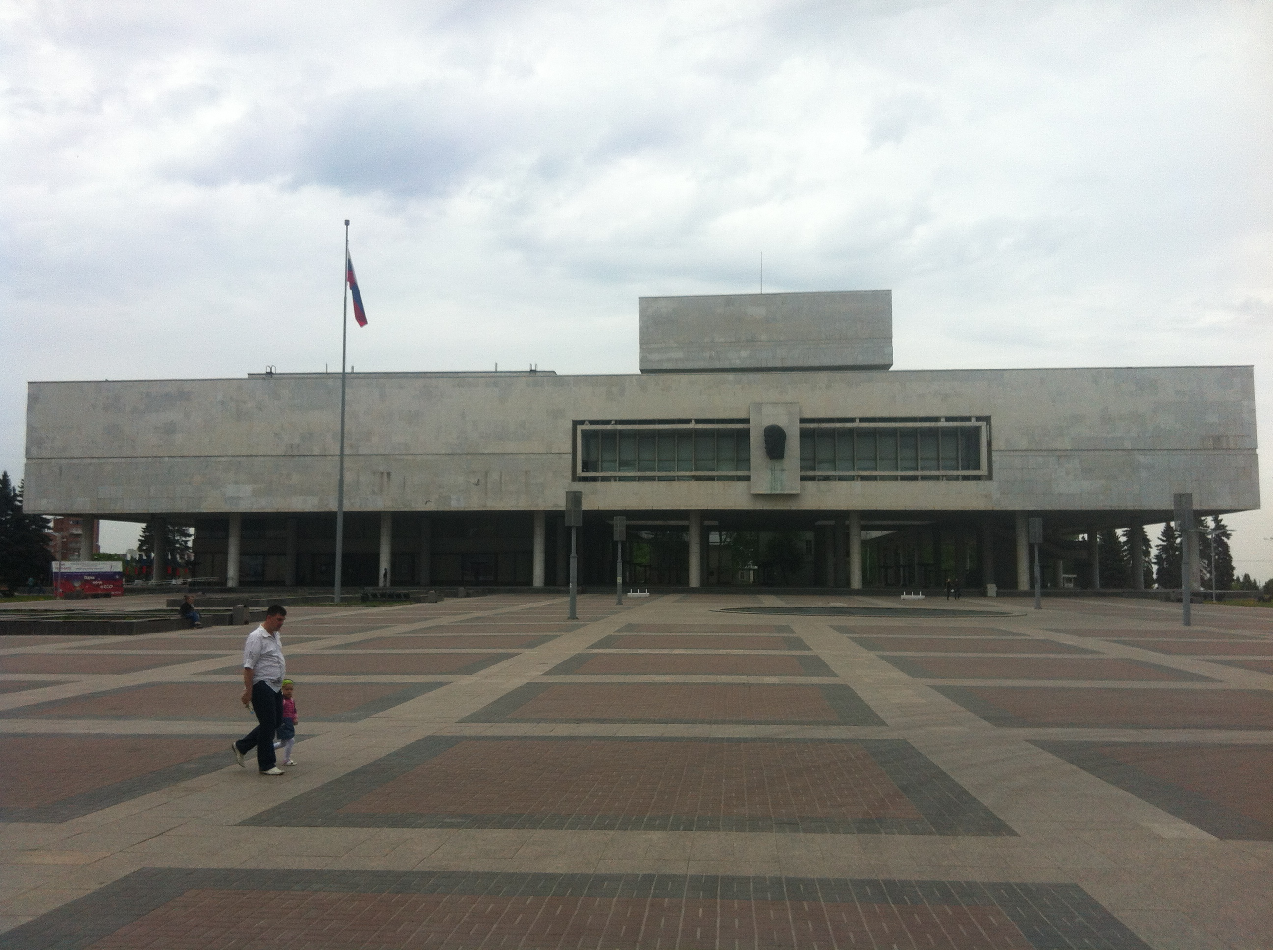 view on the Lenin Memorial Monument